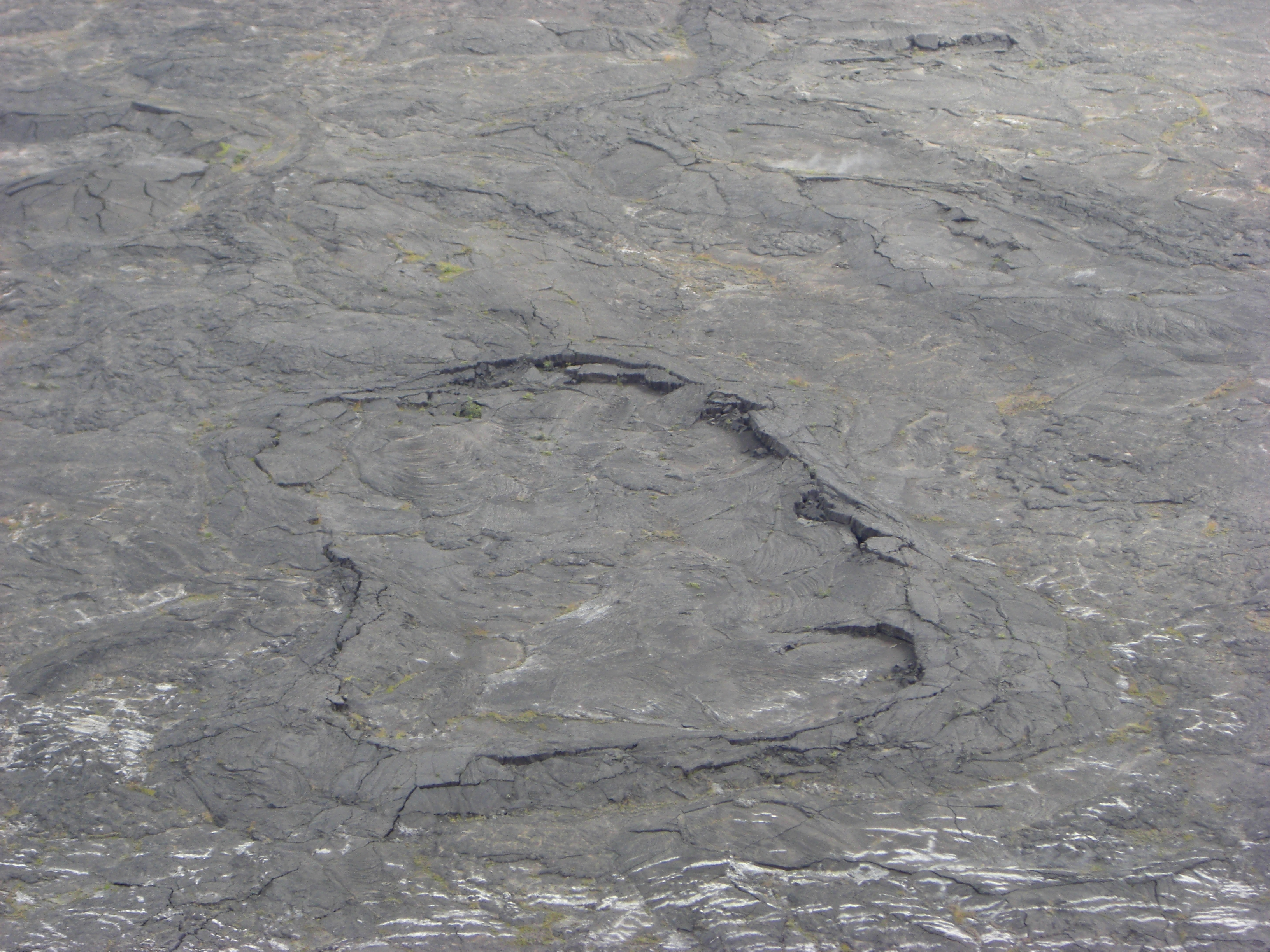 Kilauea Iki crater, Big Island, Hawaii, USA